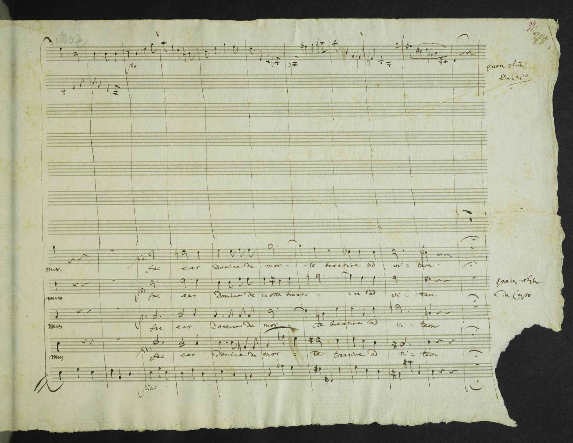 Last page of the Arbeitspartitur of Requiem (K626) Written under the staves: "fac eas Domine de morte transire ad vitam" Written in the right margin: "quam olim da capo" The bottom right corner, containing the words "quam olim da capo", was stolen in 1958.